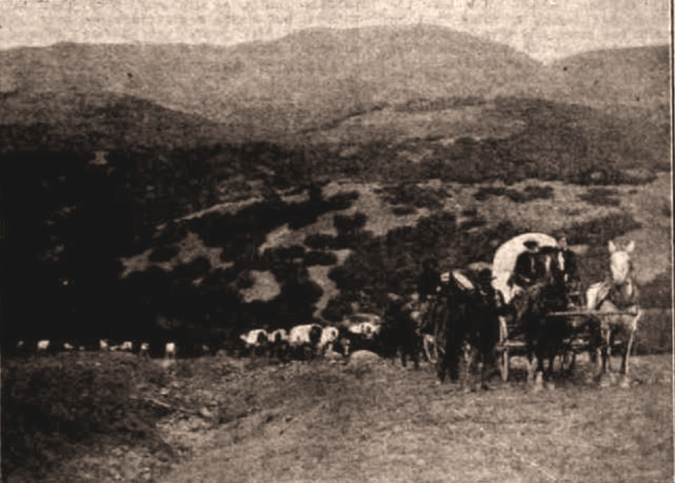 Still from One Hundred Years of Mormonism depicting the Mormon migration to the United States.